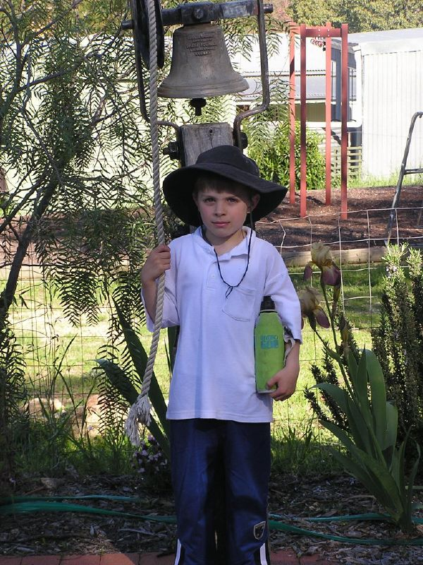 Patrick by the School Bell. Students take it in turns to ring the traditional school bell at the start and end of each day. Photo by Emily Haesler